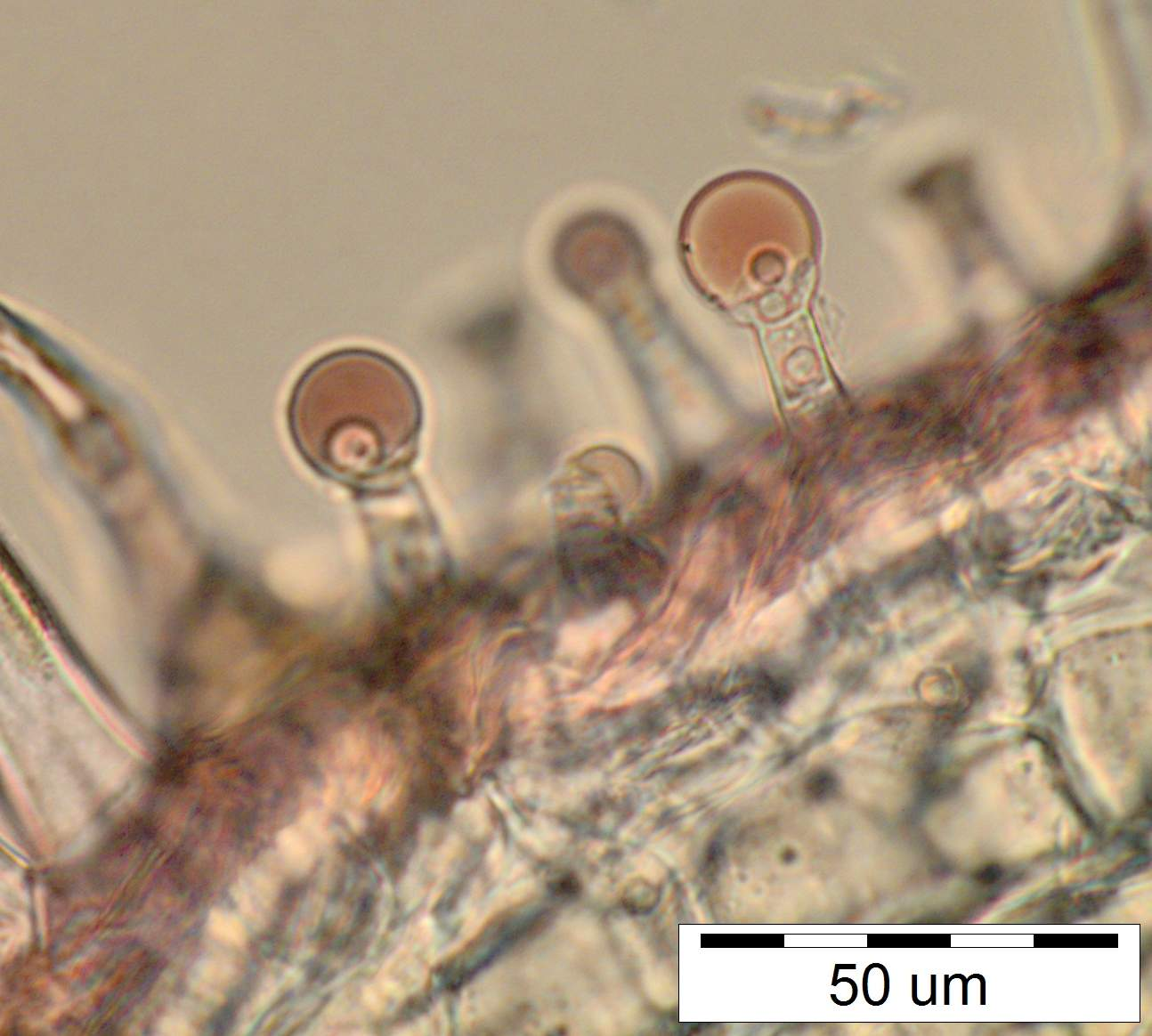 Short Capitate Glandular Trichomes of Salvia ringens